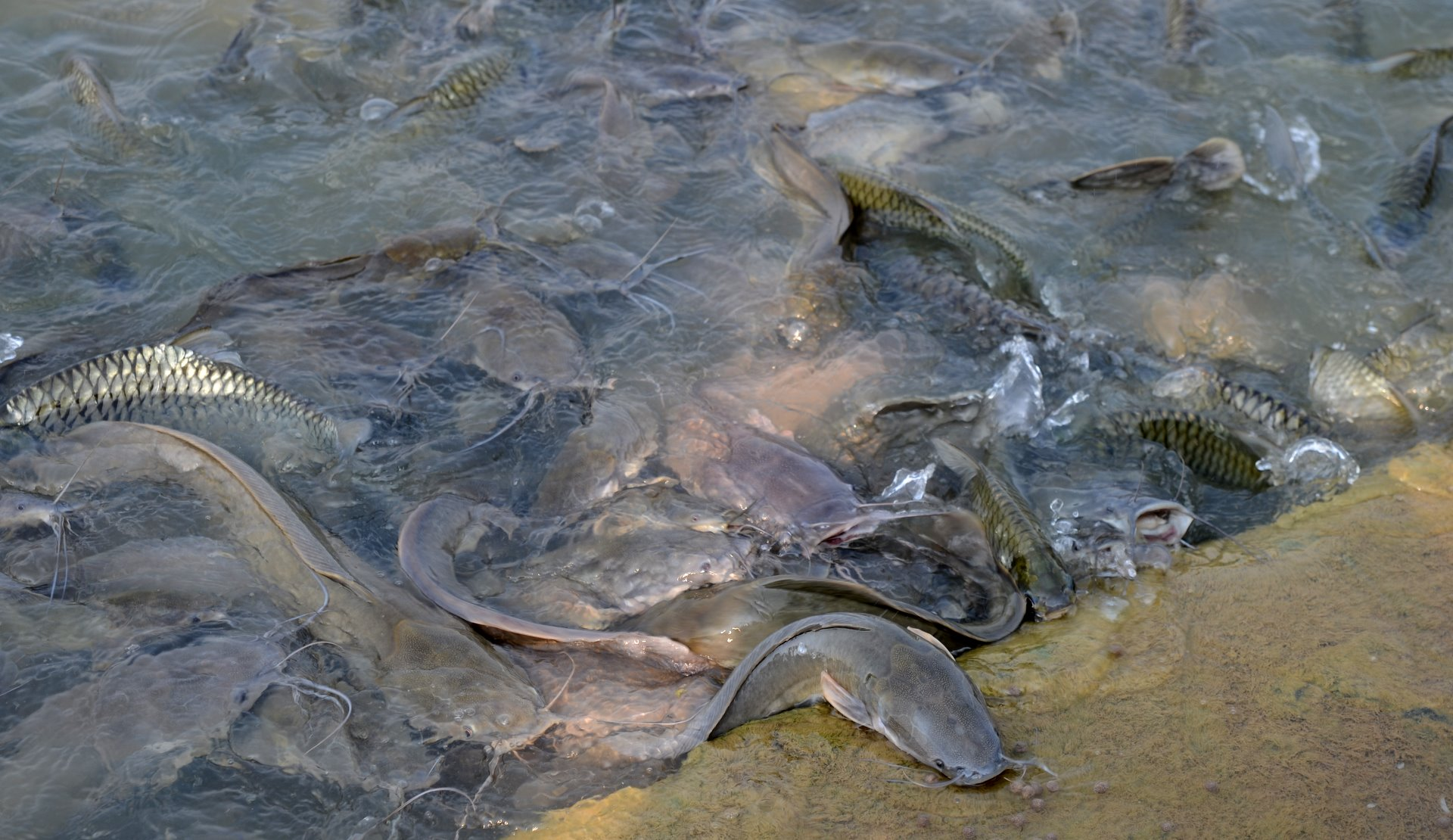 Pla duk (Thai script: ปลาดุก; catfish) and pla taphian (Thai script: ปลาตะเพียน; Java barb) are species of farmed fish in Thailand. Here they are photographed while they are fed at a public lake in Lap Lae district, in Uttaradit Province, Thailand. These particular fish are not harvested, neither is fishing allowed in this small lake.